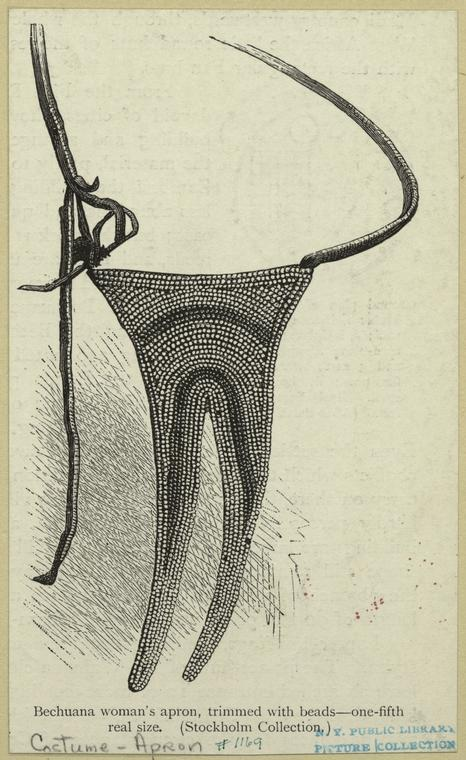 Bechuana woman's apron, trimmed with beads